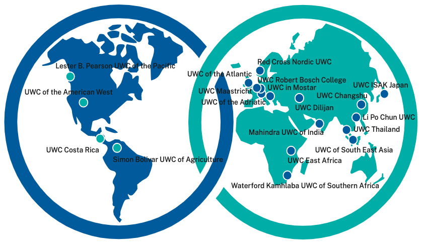 I created this and release it for use in Wikipedia. (Originally created for the Finnish National Comittee website.)